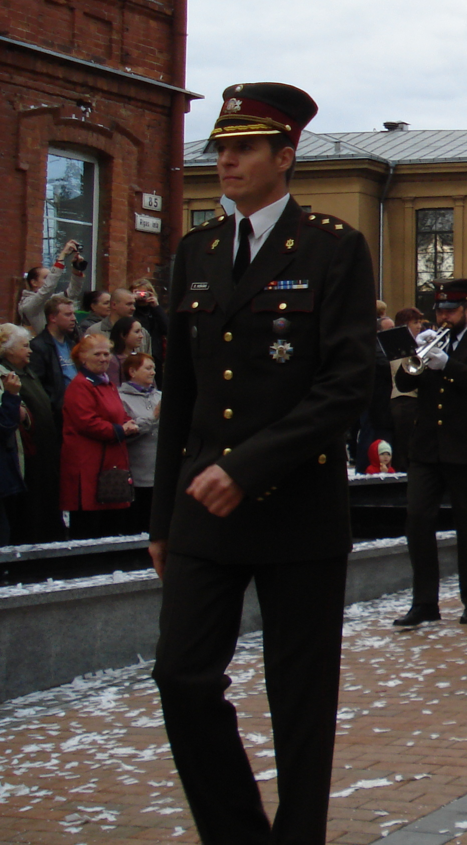 The Staff Orchestra of the Latvian National Armed Forces in the Daugavpils Town FestivalLatviešu: Daugavpils pilsētas svētki Mana pils - Daugavpils: rekonstruētās Rīgas ielas atklāšanas svētki un teatralizēts gājiens: NBS štāba orķestris. 2009. gada 23. maijs